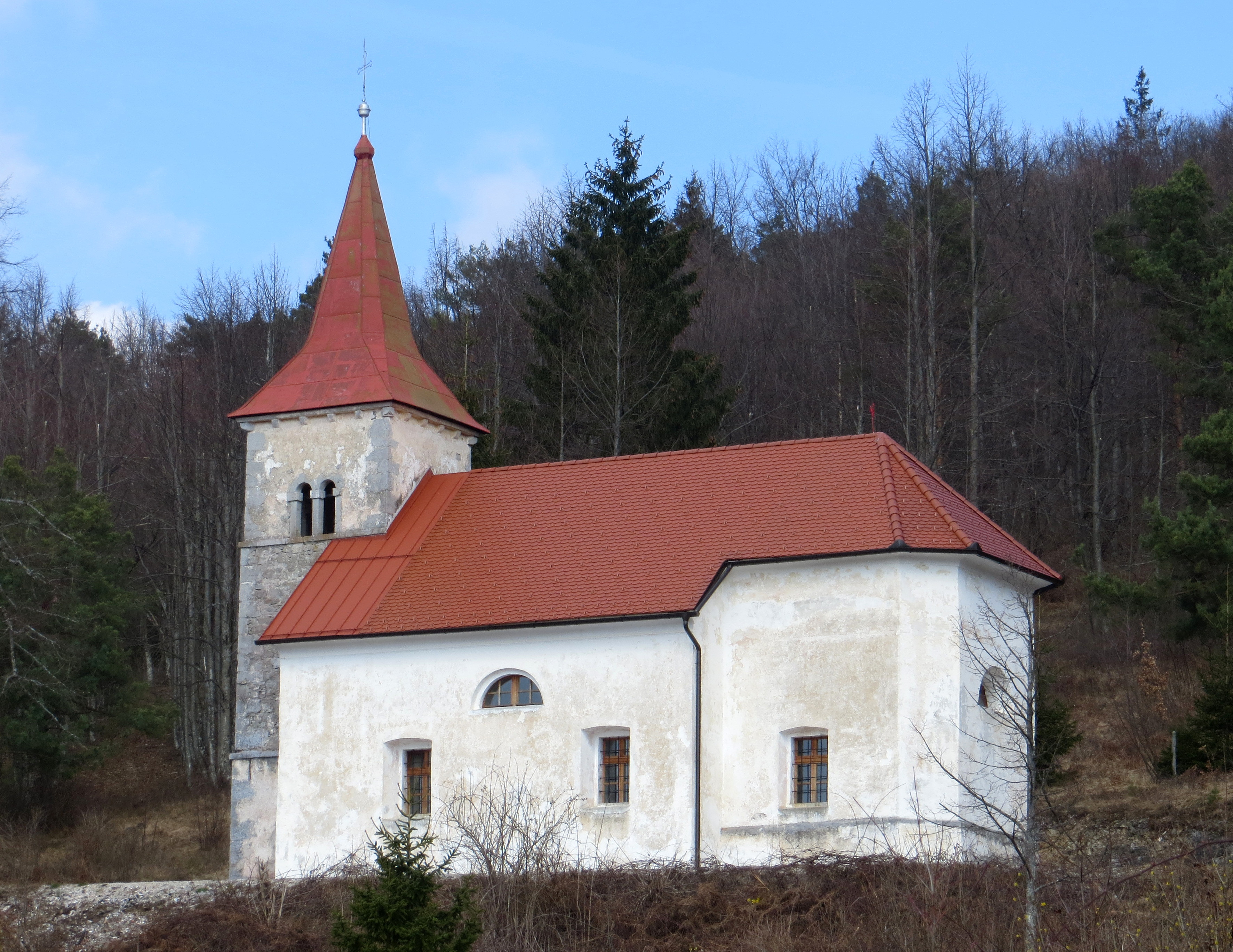 Saint Leonard's Church in Dobec, Municipality of Cerknica, Slovenia